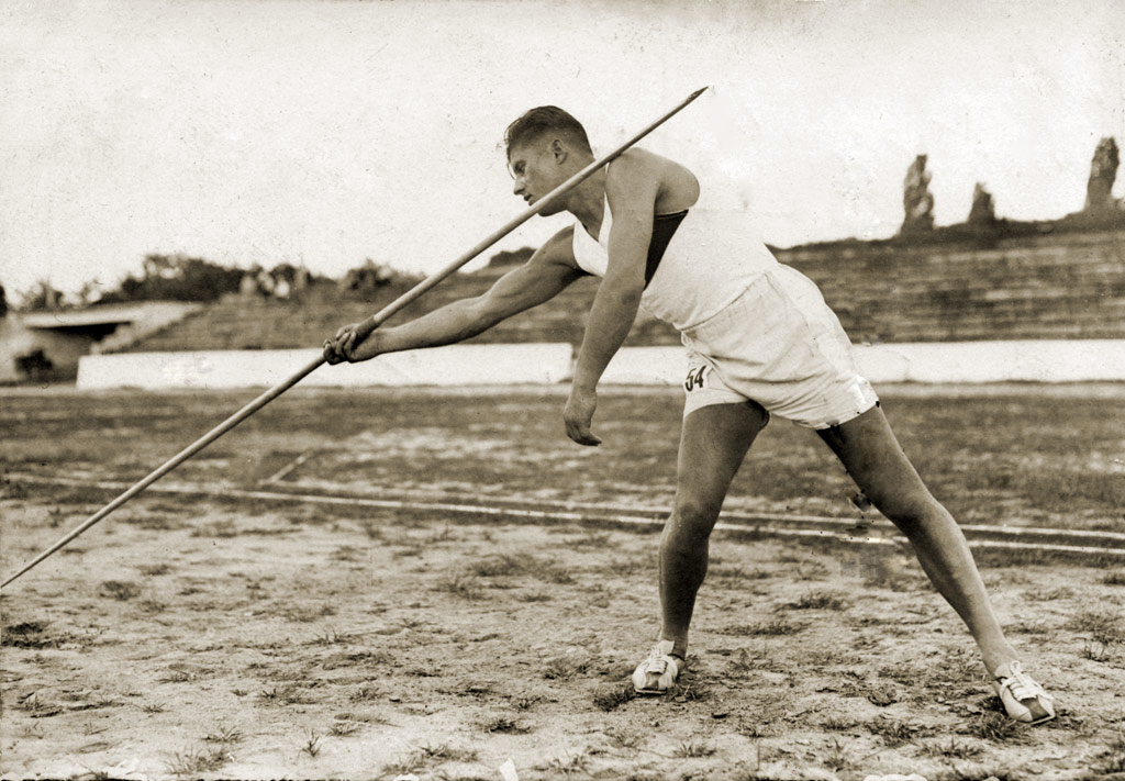 A Bulgarian javelin thrower